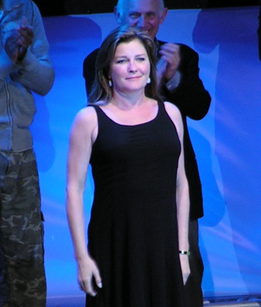 This is a picture (own work) of Kate Mulgrew at FedCon XVI (2007 in Bonn, Germany).